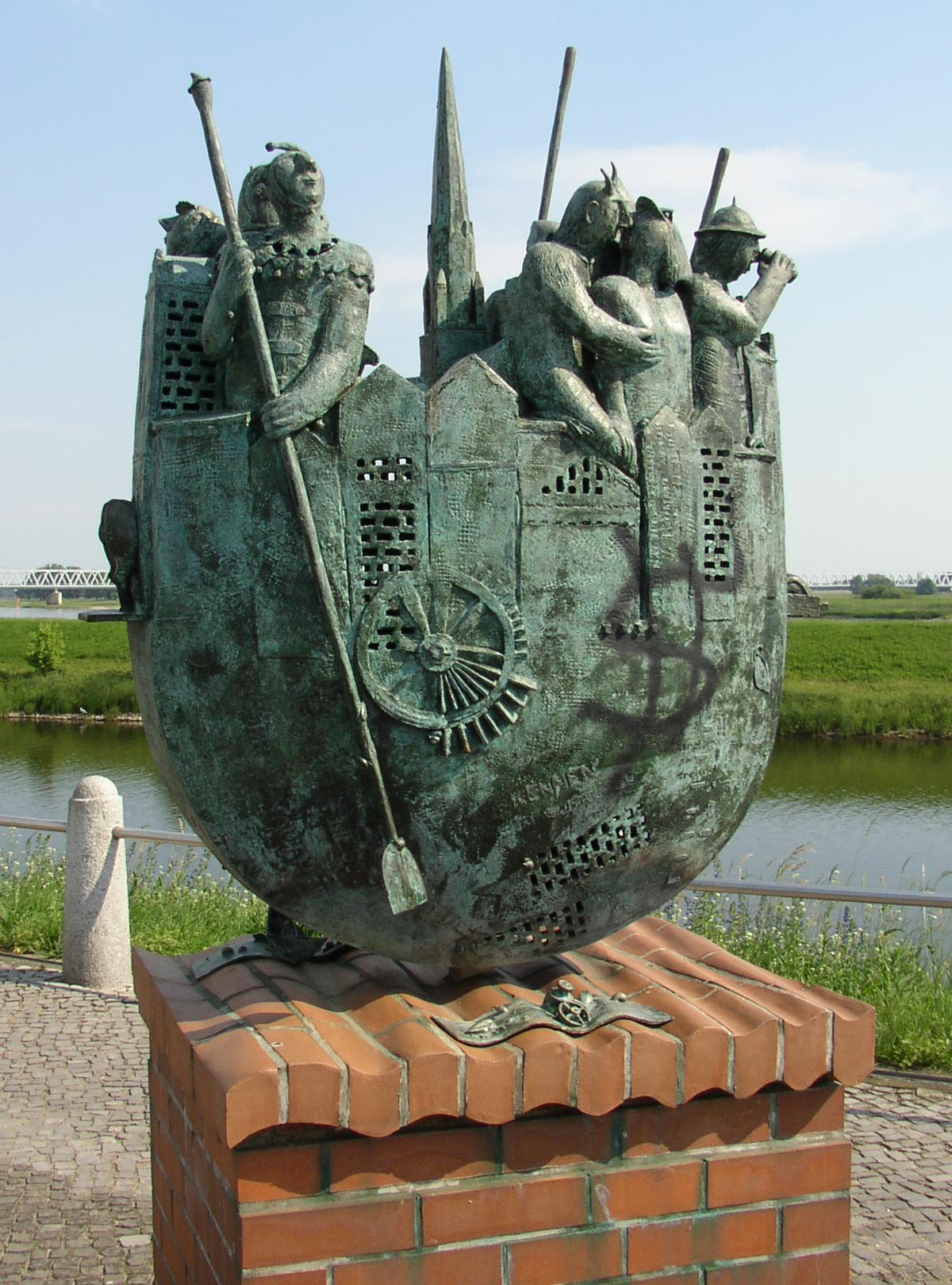 Sculpture by Christian Uhlig in Wittenberge in Brandenburg, Germany